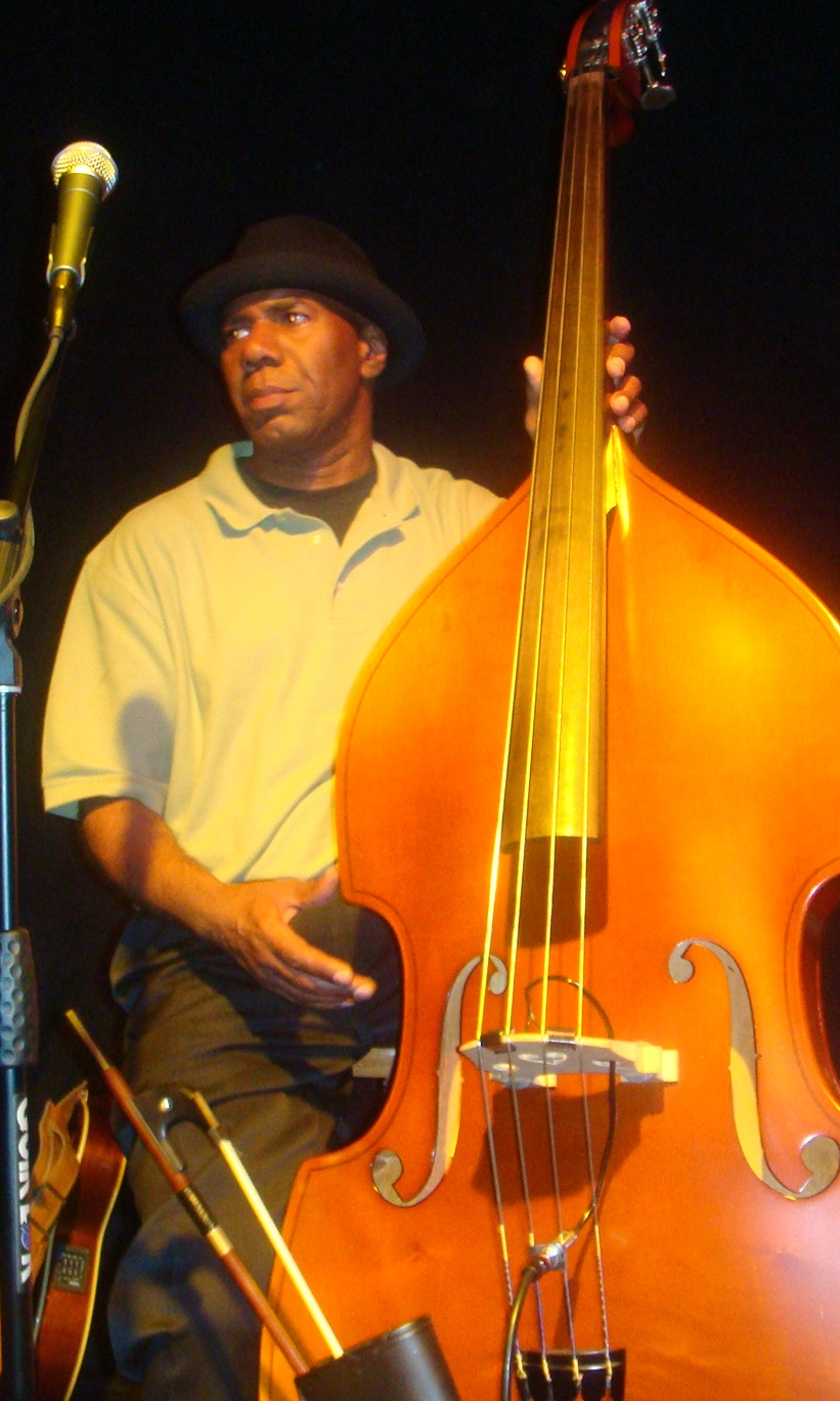 Photograph of Tony Bunn taken during a live performance